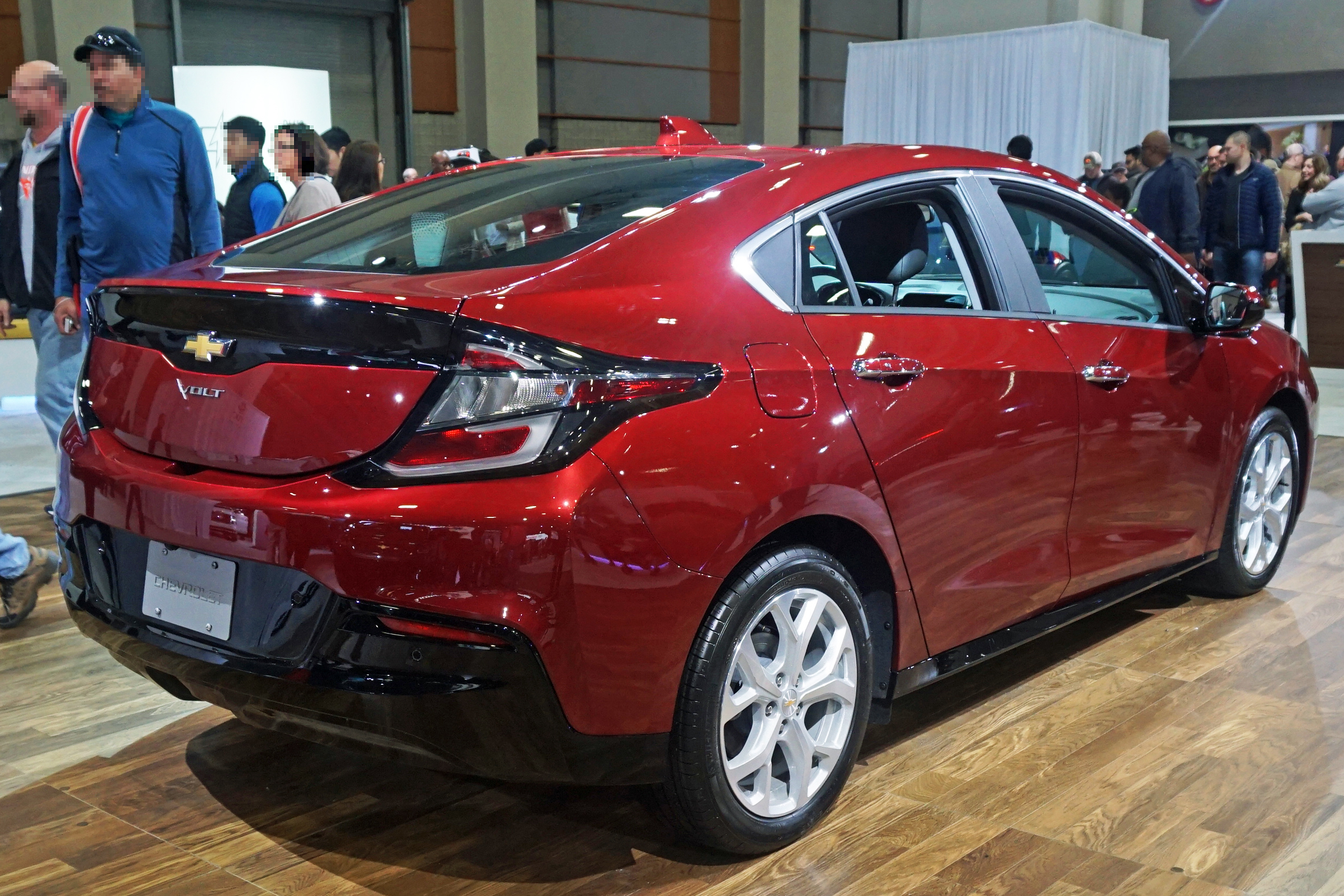 2017 Chevrolet Volt second generation at the 2017 Washington Auto Show, DC, USA.